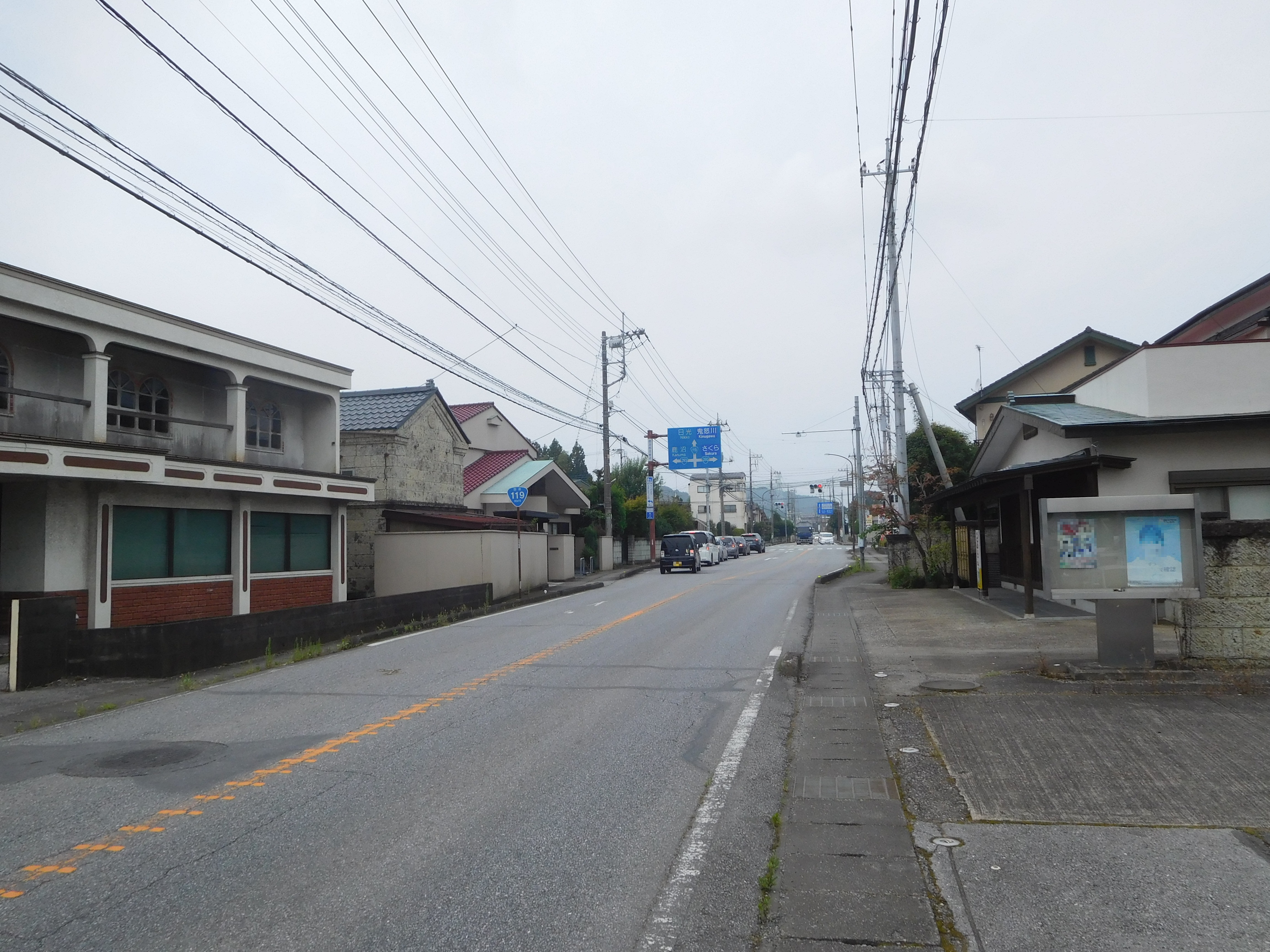 This is a landscape in front of Tokujiro intersection, Tokujira, Utsunomiya, Tochigi, Japan.